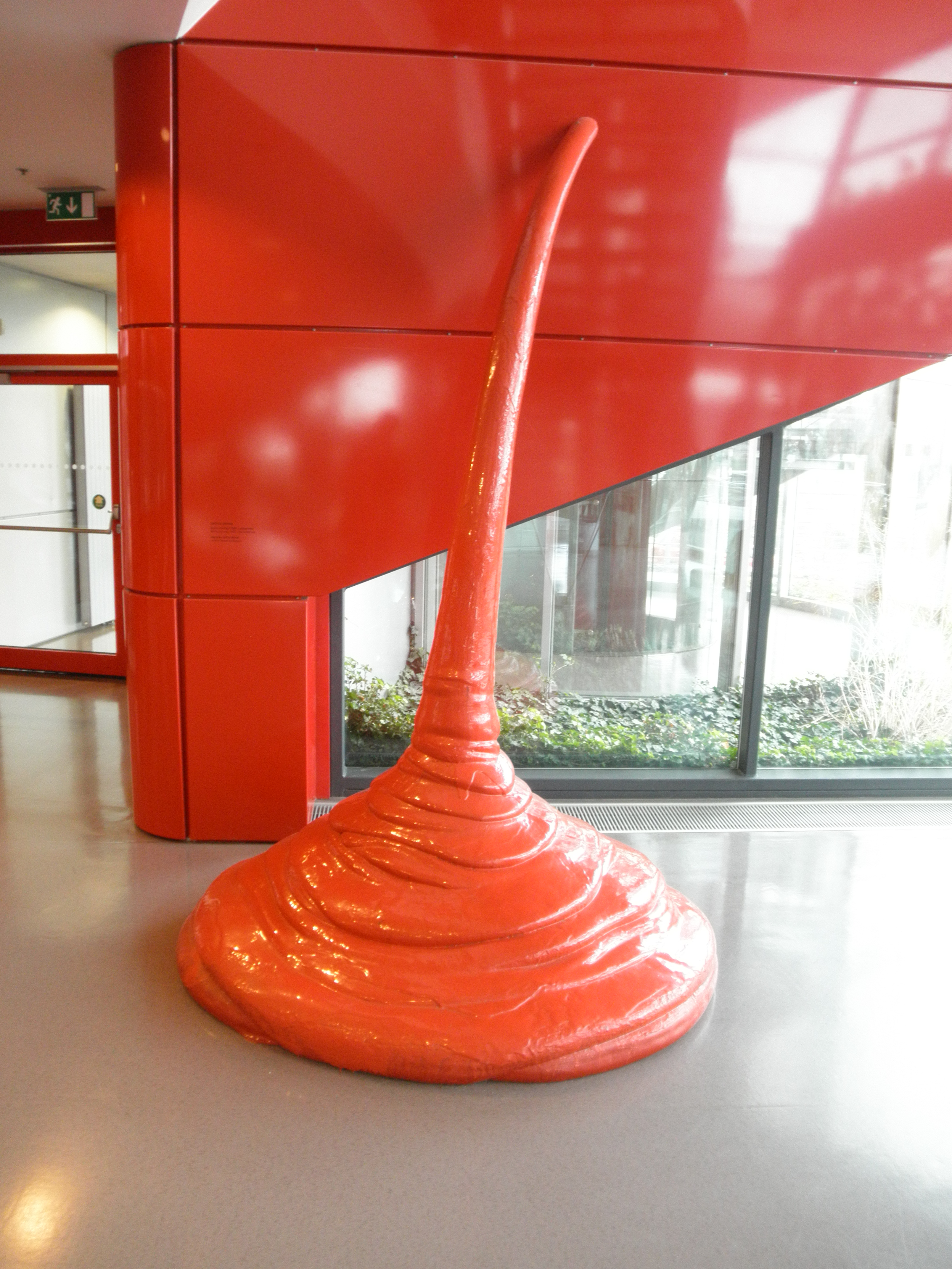 Sculpture Red is coming by Krištof Kintera in Masaryk University Campus, Brno, Czech Republic from 2007. It is made from polyurethane.